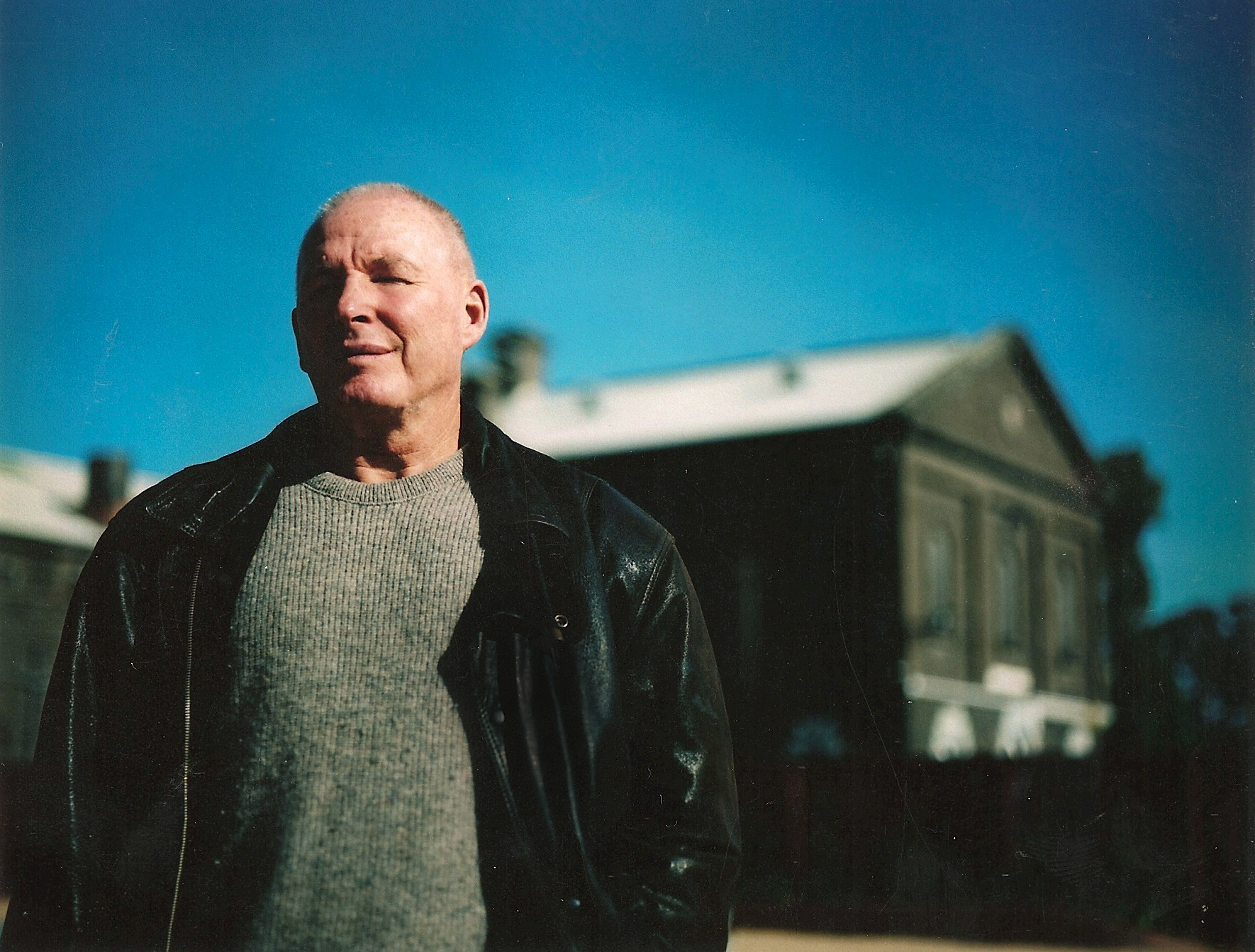 Ray Mooney beside B Division. Pentridge. By Rupert Mann.